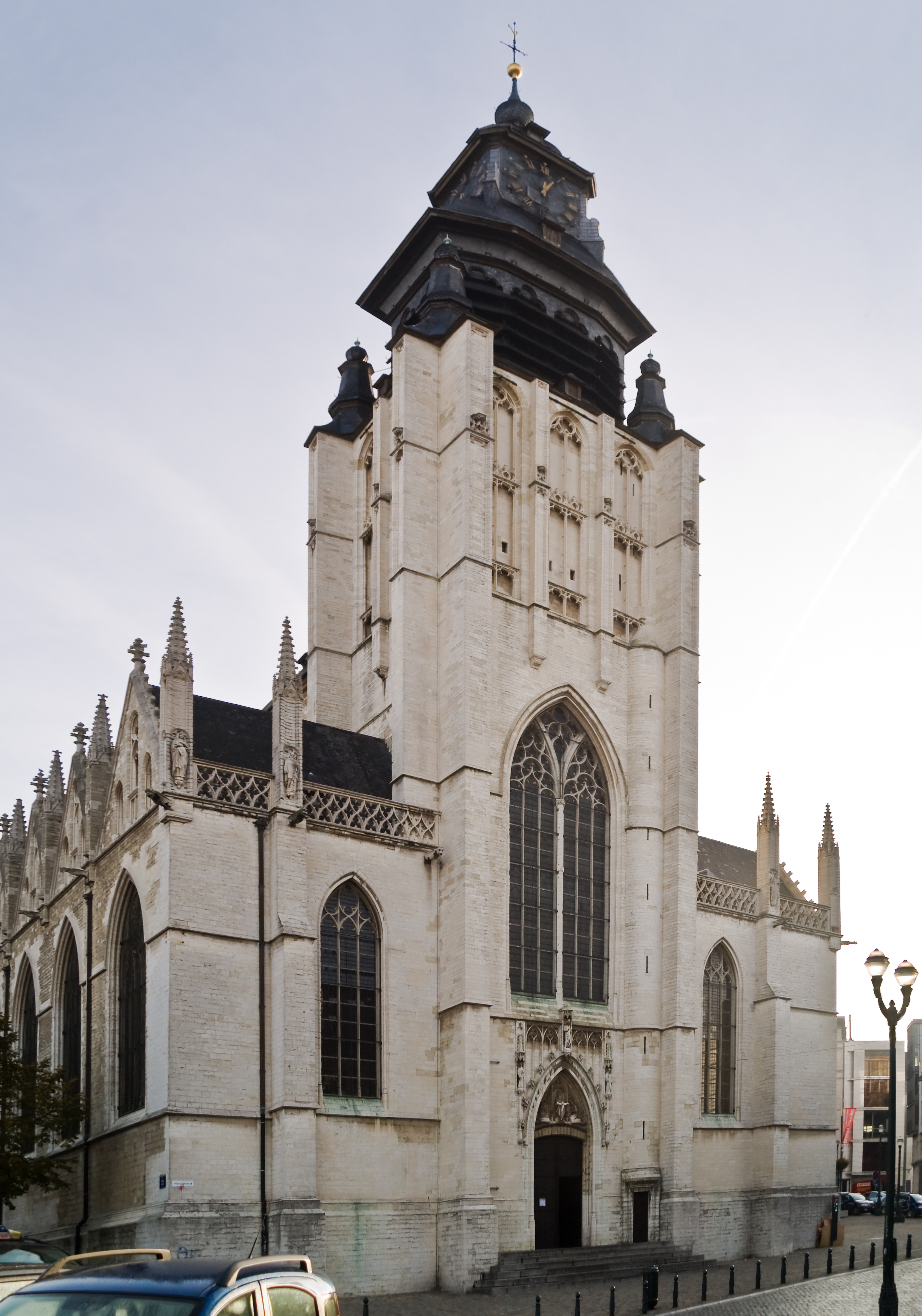 Notre-Dame de la Chapelle (French) (Kapellekerk in Dutch) in Brussels, Belgium.